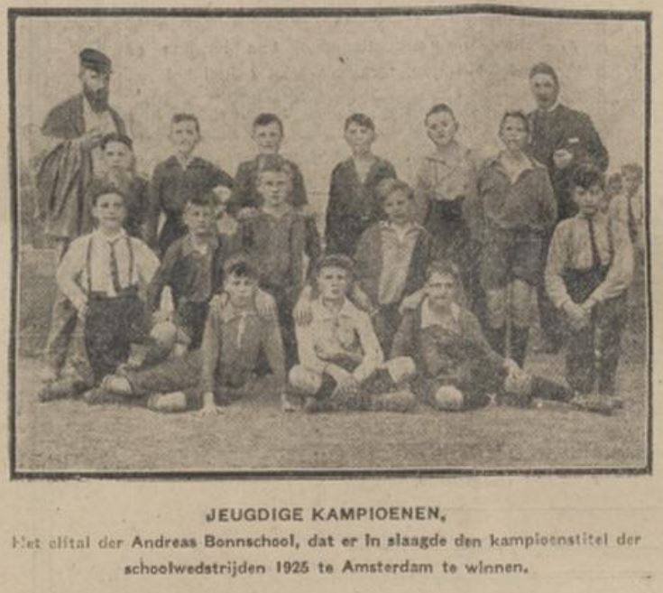 Championship team Schooltournament possibly H.A. Almoes head of Andreas Bonnschool Amsterdam